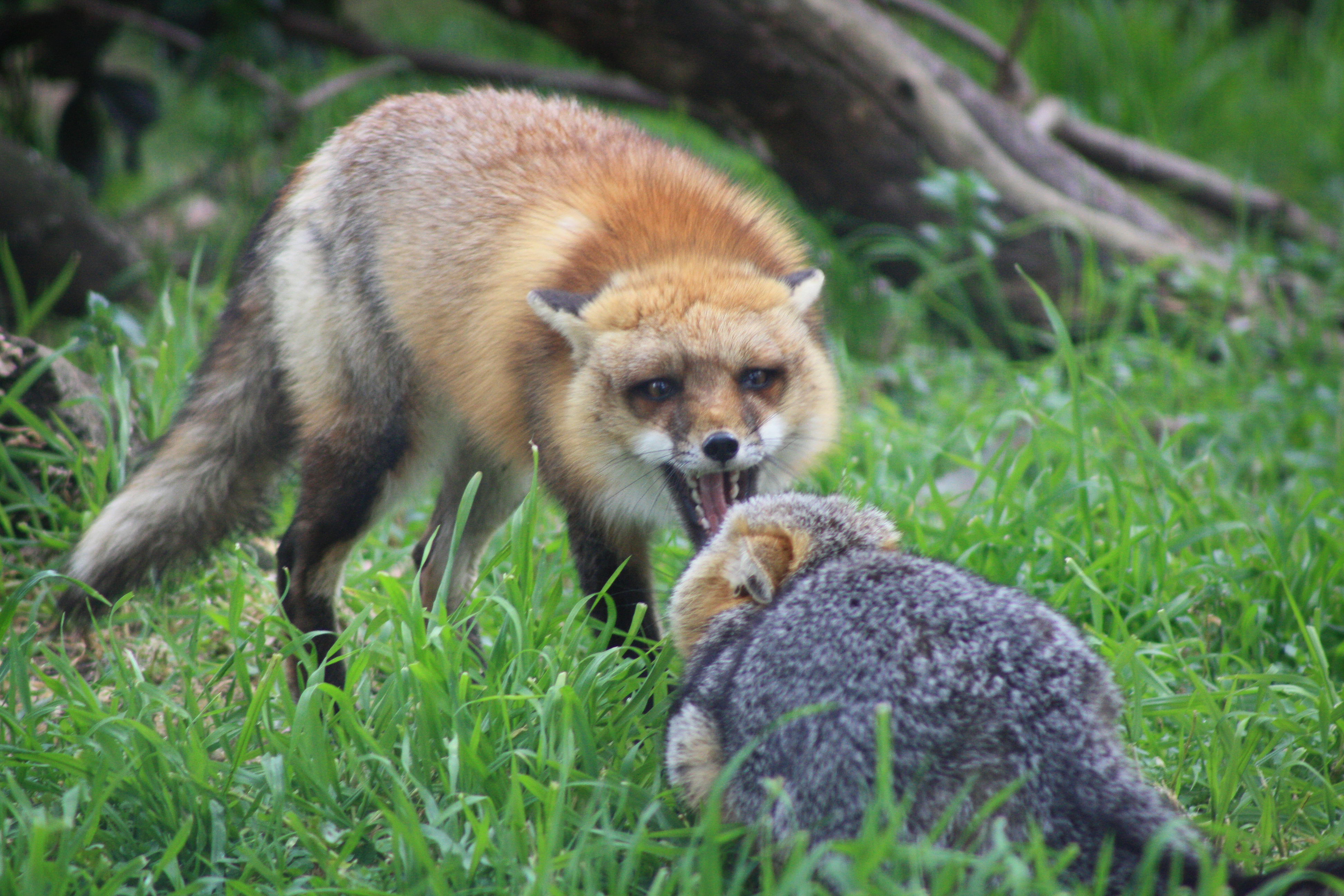 Red fox confronting grey fox, San Joaquin National Wildlife Refuge